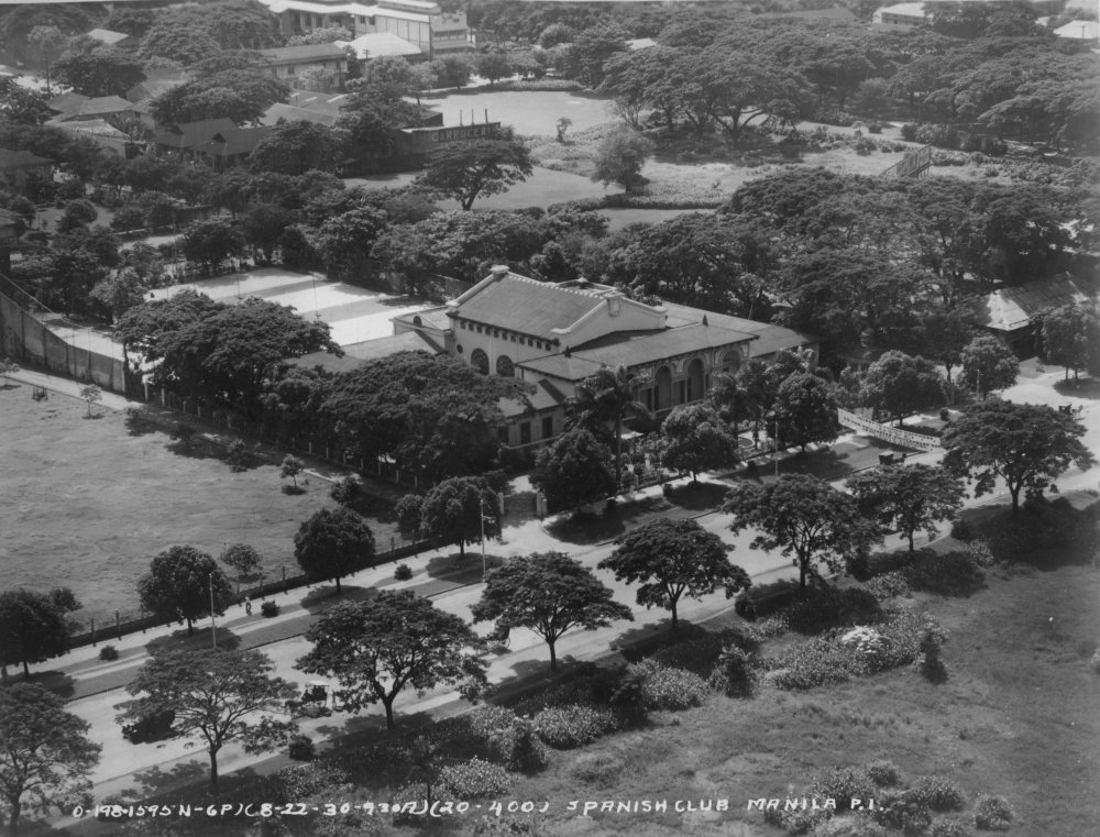 PictionID:38276875 - Catalog:AL-135A 087 Spanish Club Manila 22Aug30 - Filename:AL-135A 087 Spanish Club Manila 22Aug30.tif - This image is from a photo album donated to the Museum by JL Highfill, who was a photographer for the Navy before and during the Second World War-----------PLEASE TAG this image with any information you know about it, so that we can permanently store this data with the original image file in our Digital Asset Management System.-----------------SOURCE INSTITUTION: San Diego Air and Space Museum Archive